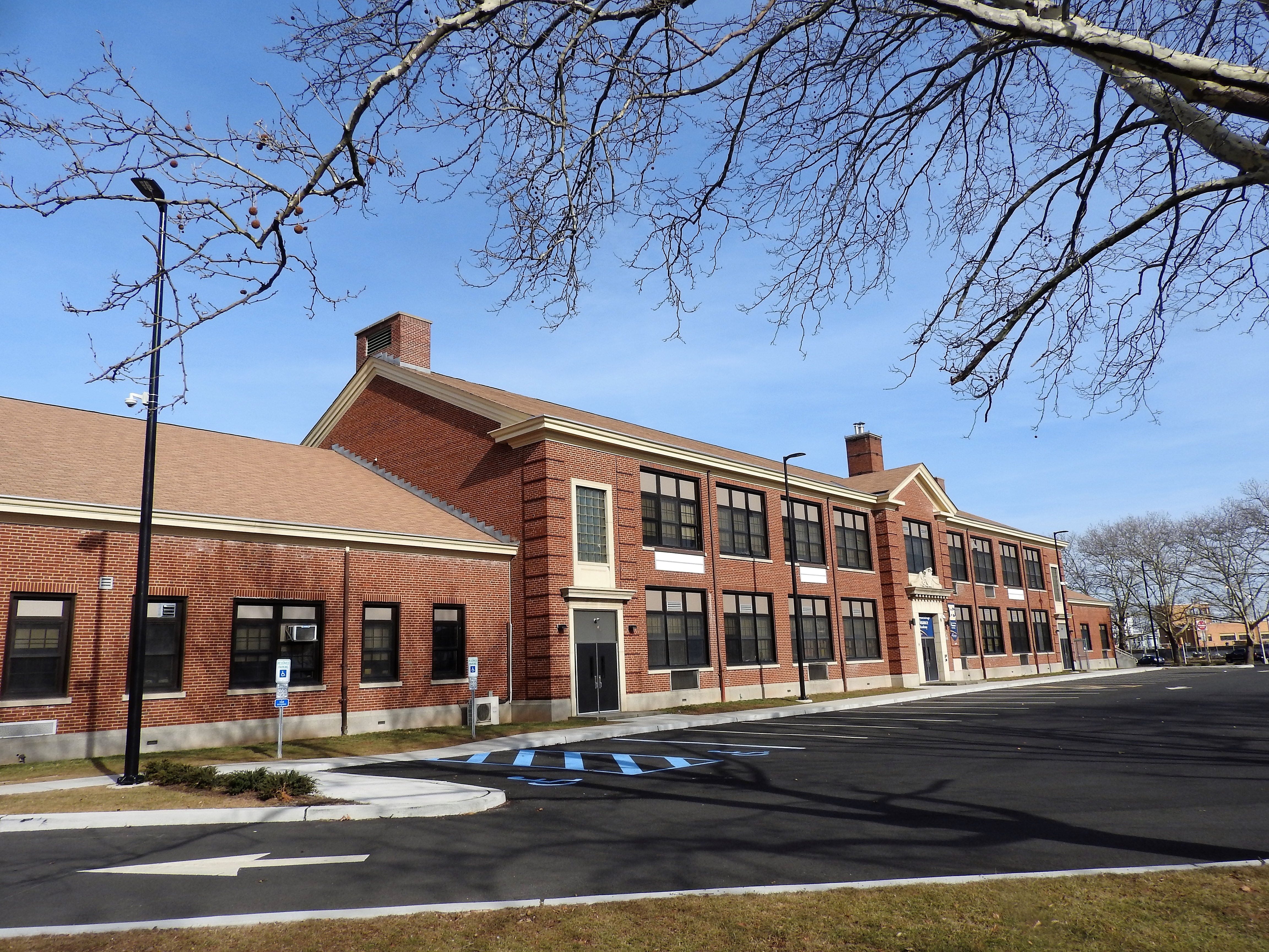 Looking east at front of school